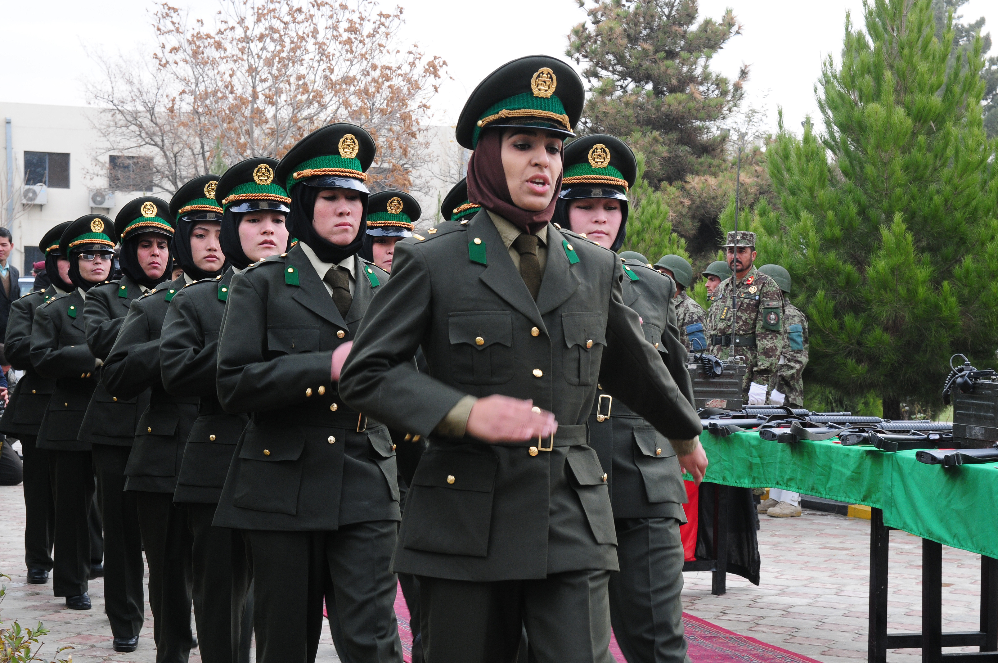 111124-N-IA840-121 KABUL - (Nov. 24, 2011) Fourteen Afghan National Army (ANA) women march into their graduation ceremony as the second all female Officer Candidate School (OCS) class to go through the Kabul Military Training Center (KMTC). NATO Training Mission – Afghanistan provides coalition advisors to help train the KMTC graduates. NTM-A is a coalition of 37 troop-contributing nations charged with assisting the Government of the Islamic Republic of Afghanistan (GIRoA) in generating a capable and sustainable Afghan National Security Force ready to take lead of their country’s security by 2014. (U.S. Navy Photo by Mass Communications Specialist 1st Class Elizabeth Thompson/Released)